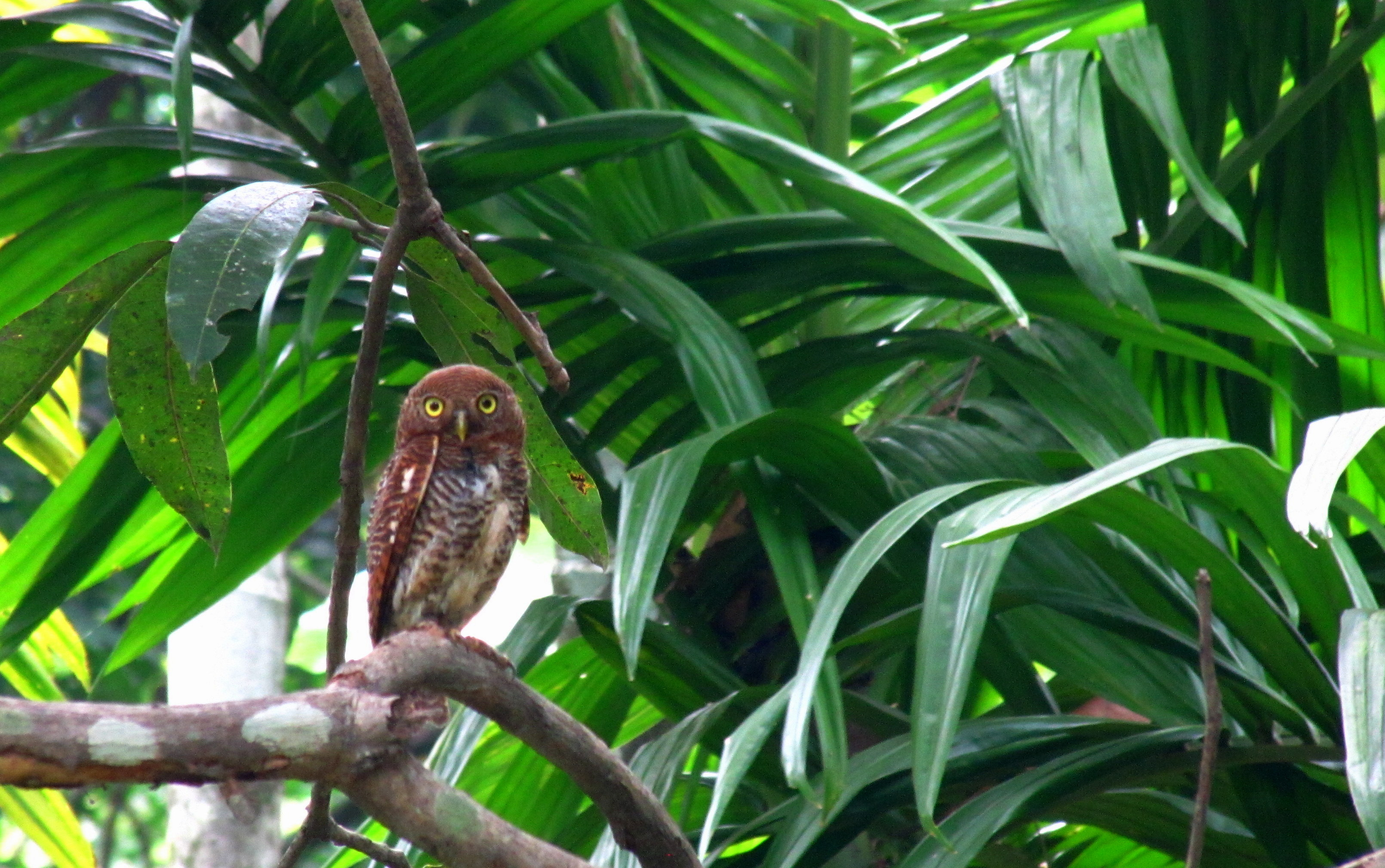 Glaucidium radiatum malabaricum